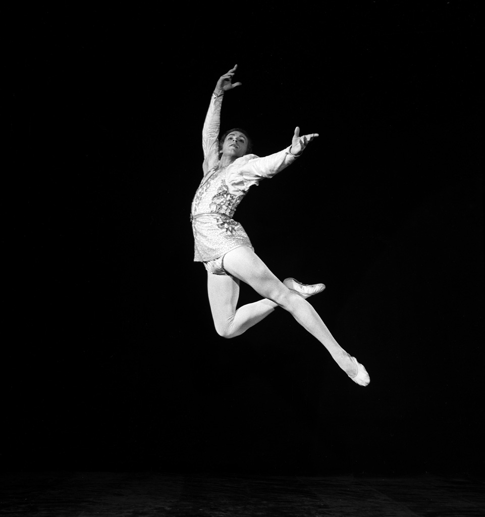 “Scene from ballet Swan Lake”. Ballet dancer Nikolai Fadeyechev in a scene from Pyotr Tchaikovsky's ballet Swan Lake staged at the State Academic Bolshoi Theater of the USSR.